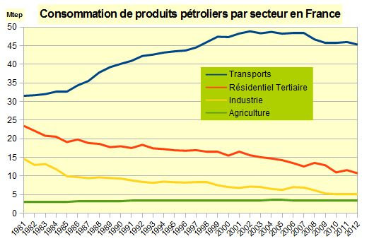 Oil products consumption by sector in France data source : French Ministry of Ecology